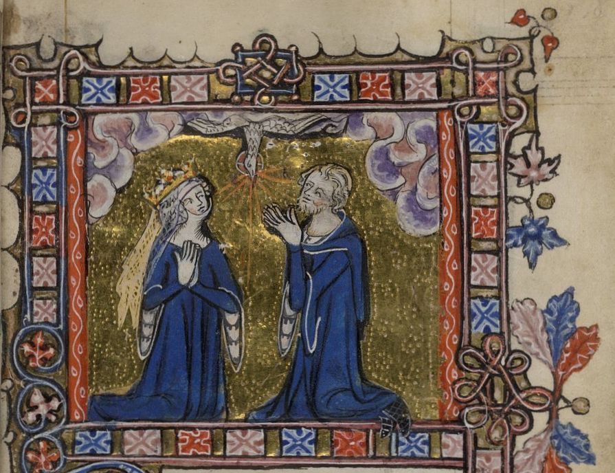 Eleanor of Woodstock and Reinald II of Guelders